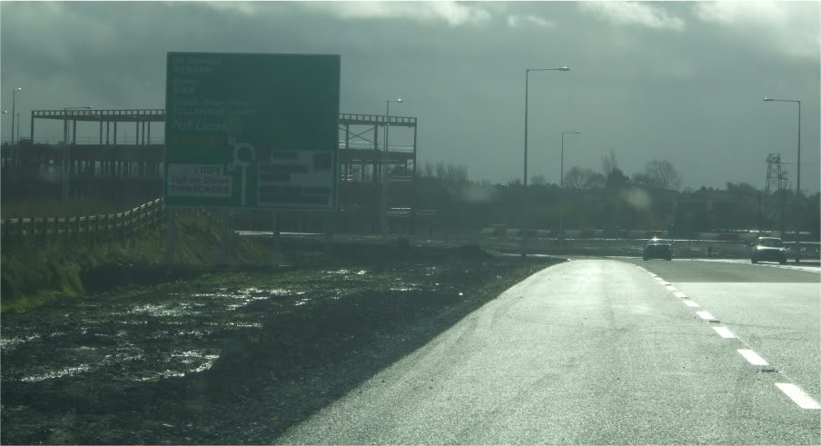 The Junction of the N52 Tullamore Bypass with the R443.